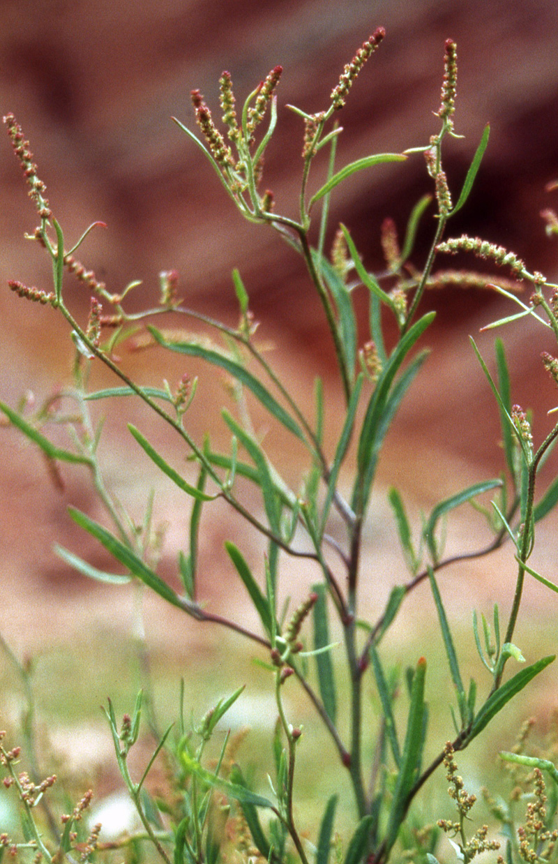 Atriplex littoralis - Germany, Heligoland